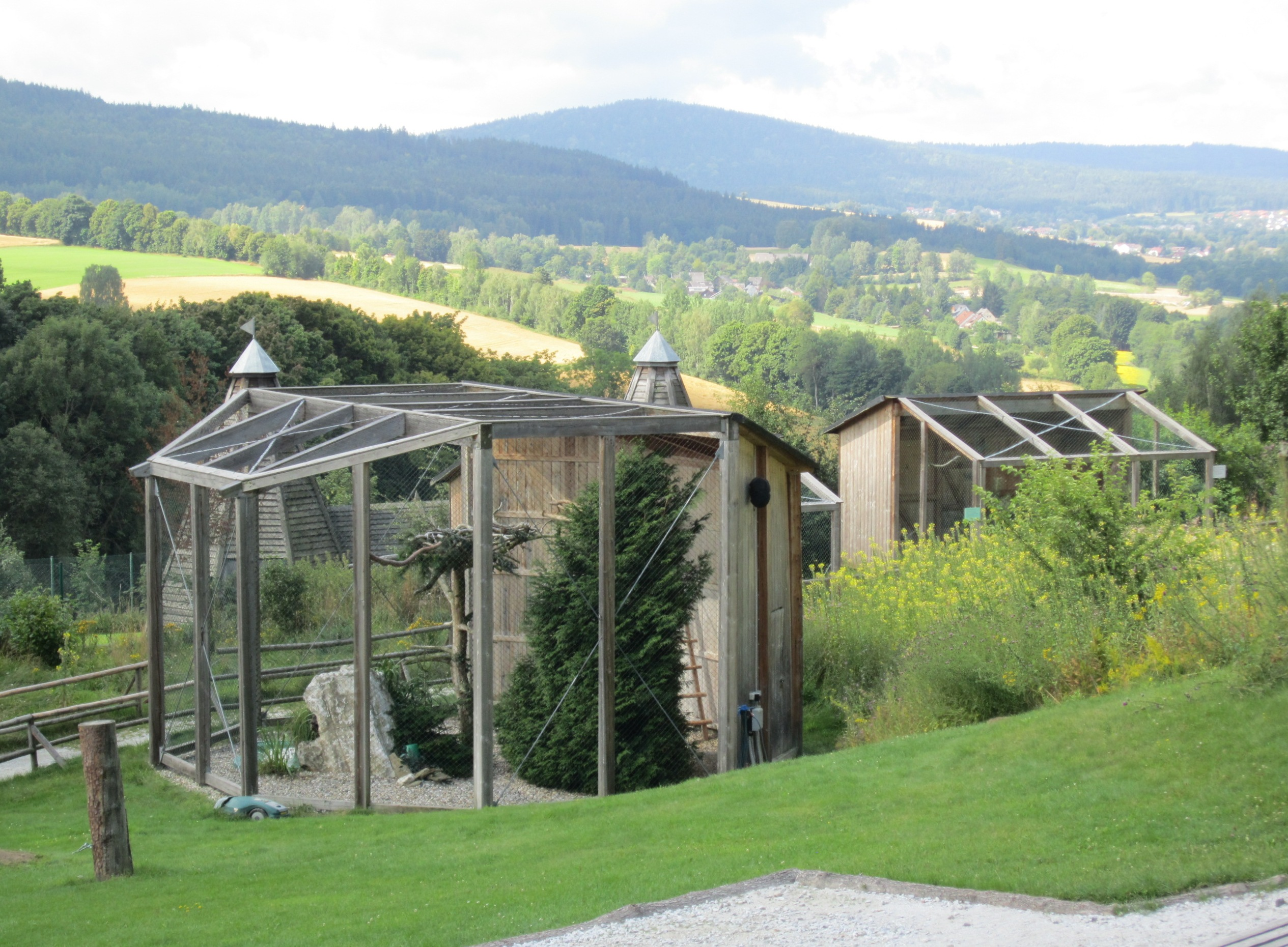 Bird of prey park Wunsiedel